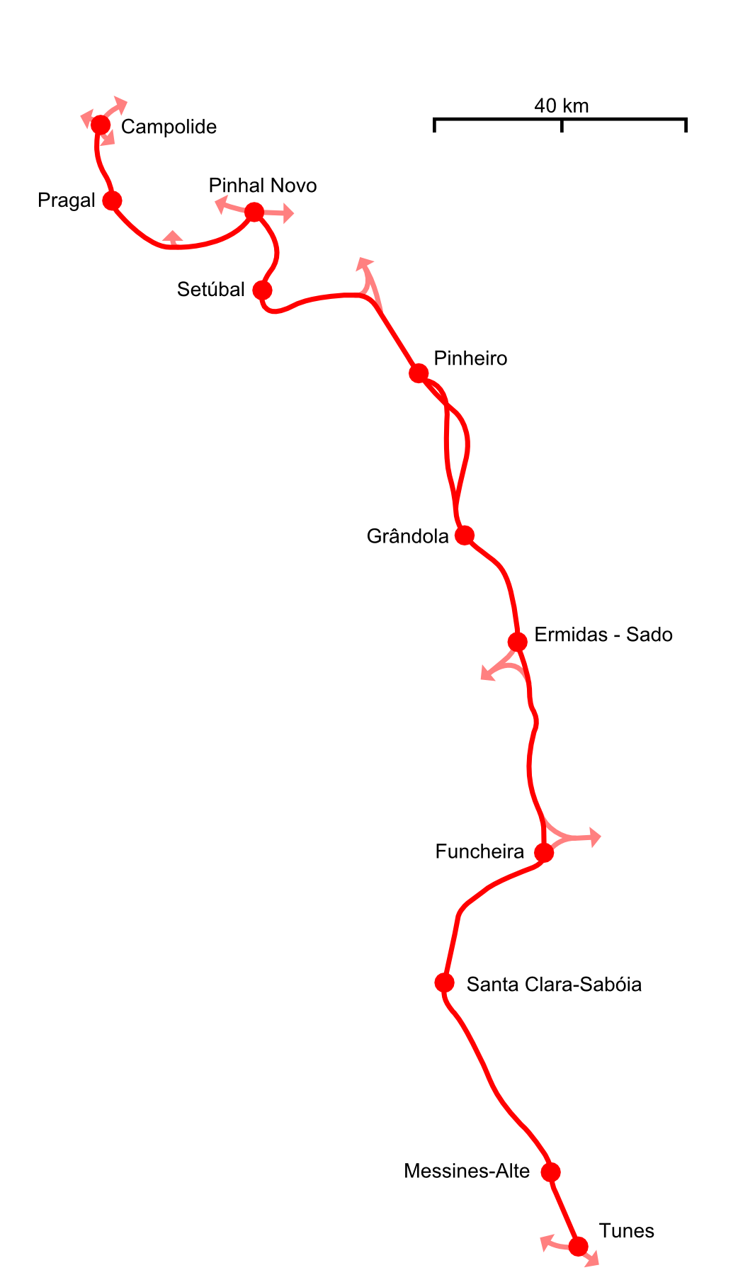 Map of the southern line (Portugal).